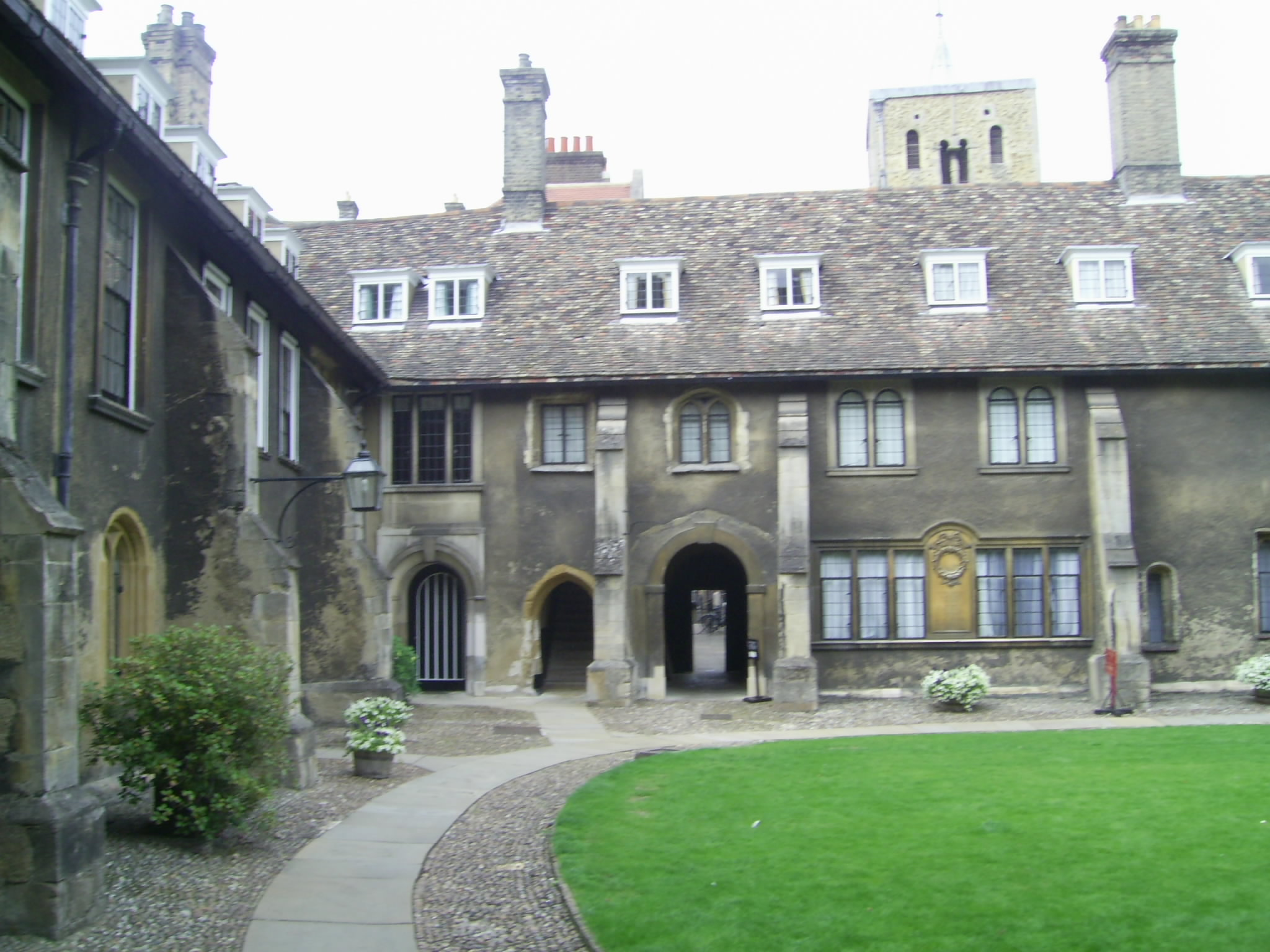 The West end of the Old Court of Corpus Christi College, Cambridge